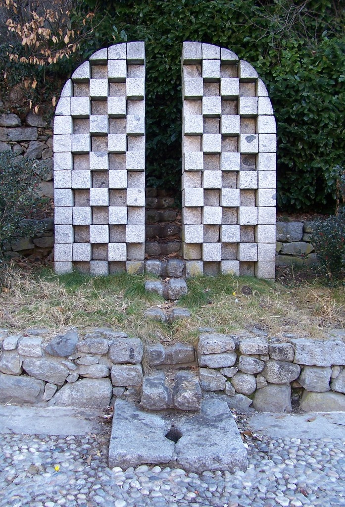 "La Porta" in the monument "Il luogo delle Vicinie" - by Franca Ghitti. Nadro, Val Camonica, Italia